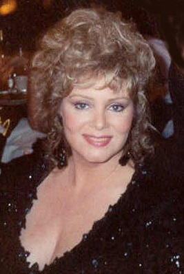 Jean Smart with Jim Turilli at the Governor's Ball following the 41st Annual Emmy Awards, 9/17/89